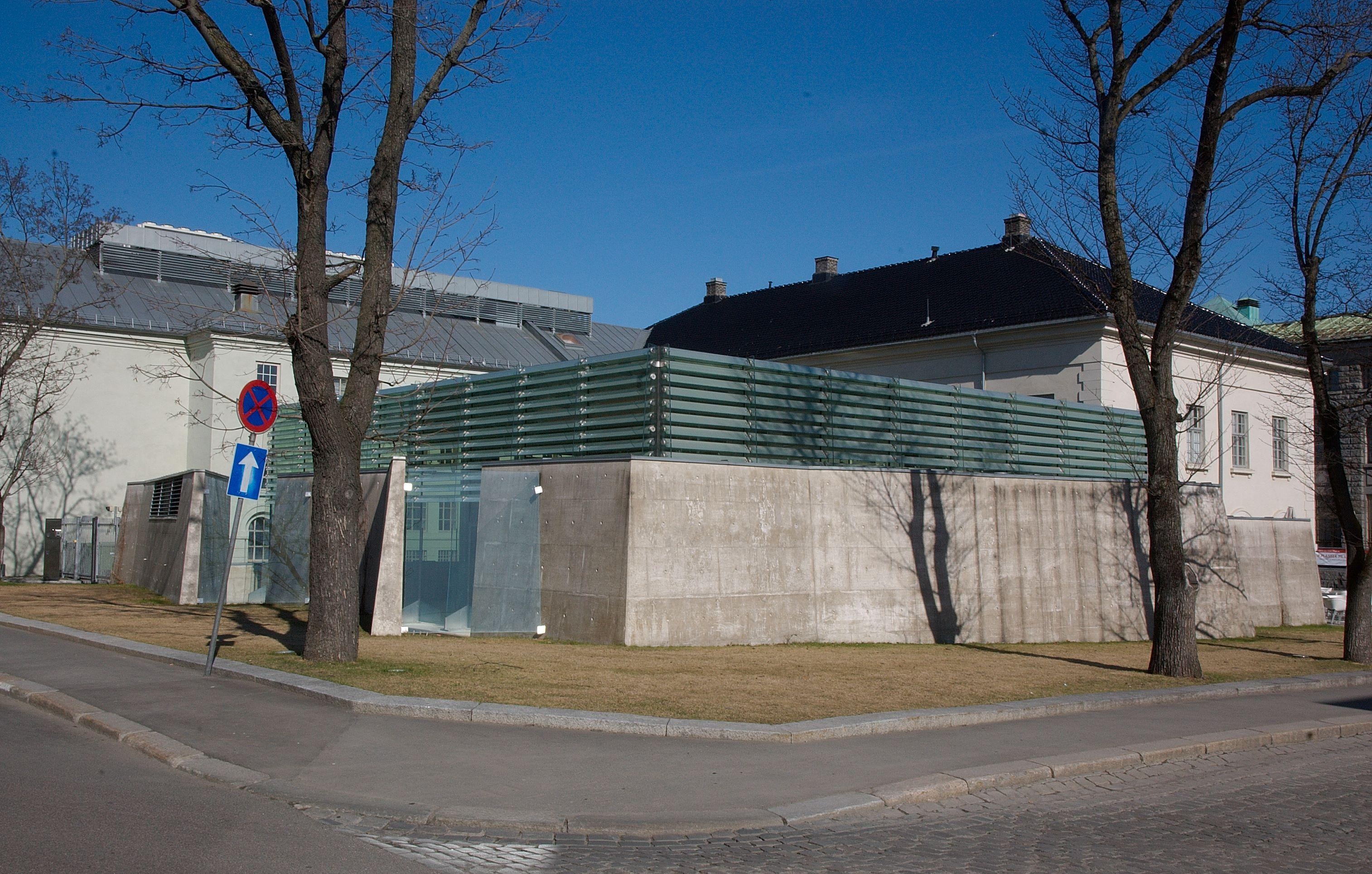 Norwegian National Museum of Architecture in Oslo by Sverre Fehn